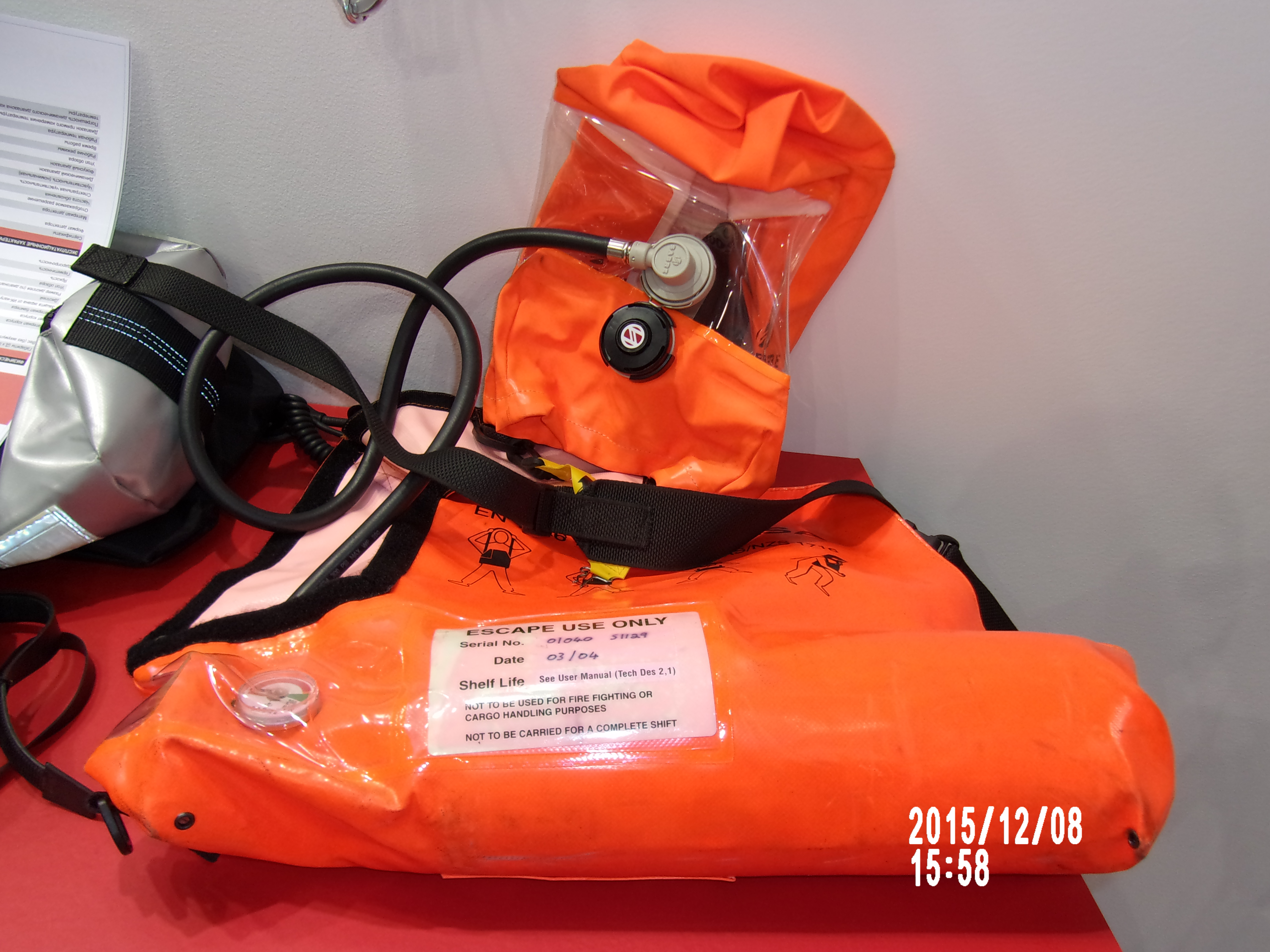 The self-rescuer (SCBA), manufactured by Scott. Holdover time 15 minutes.